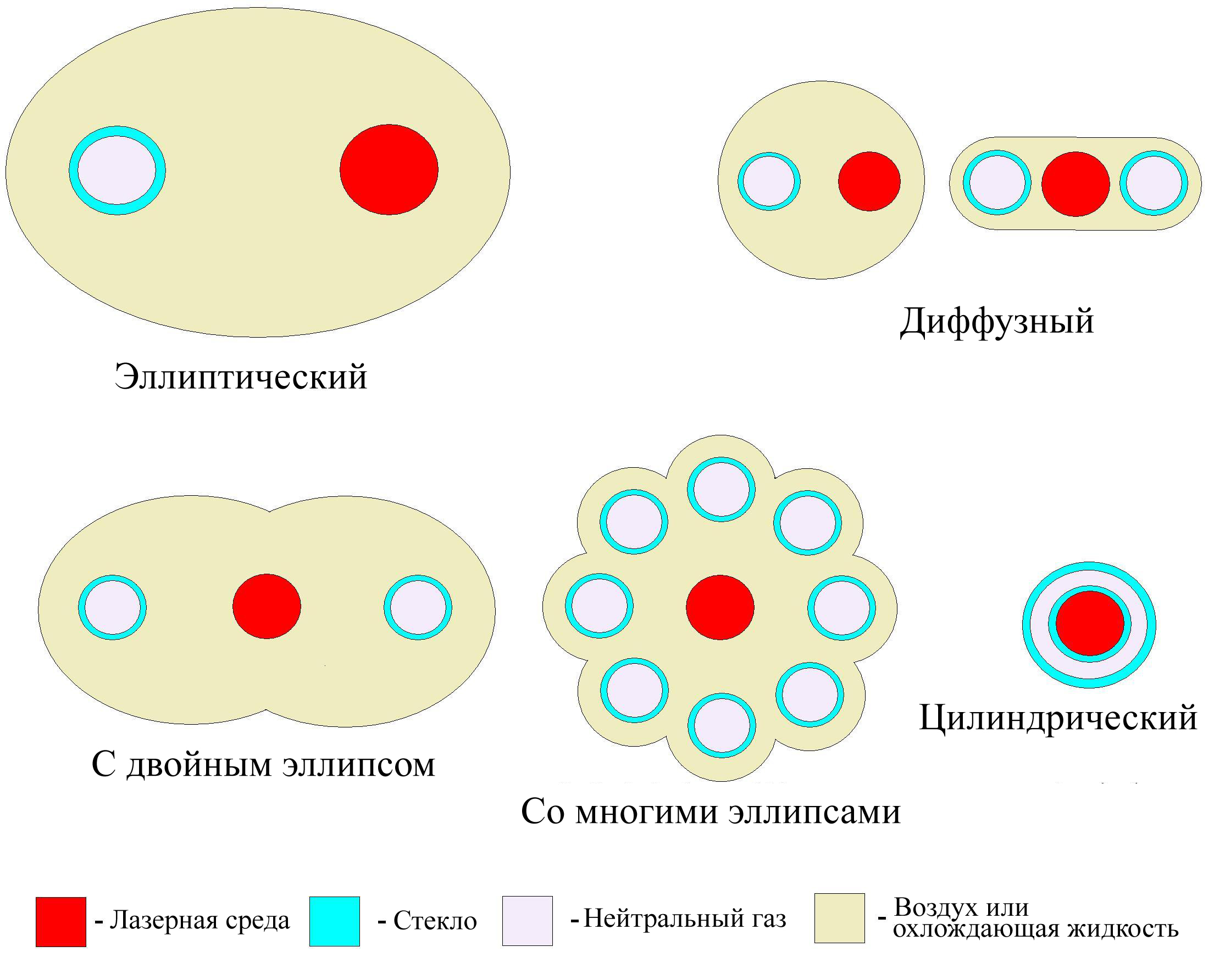 Various laser pumping cavity cross section shapes, in russian